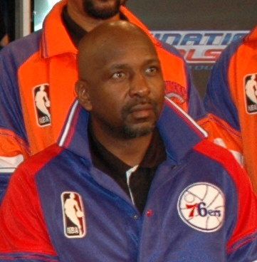 (From top left to right) NBA legends Julius "Dr. J" Erving, Clyde Drexler, George Gervin, Dave Cowens, Walt "Clyde" Frazier, Earl Monroe, (Bottom left to right) Bill Russell, Robert Parish, Moses Malone, and Kareem Abdul-Jabbar pose with the Larry O'Brien NBA Championship Trophy for the 2005 NBA Legends Tour: Destination Finals kick off held at the NBA store. The Tour will visit various cities and United Service Organizations (USO) supported military installations as part of the NBA's on going effort to support service members during the upcoming playoff season.